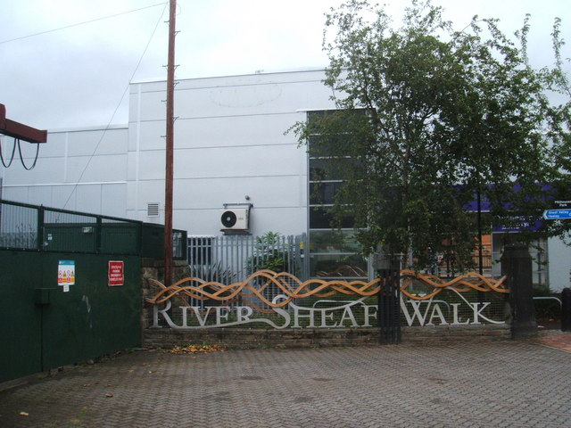 Start of "River Sheaf Walk" , Sheffield. Descriptive plaque at 1459352describes this walk, and the area and its industrial past